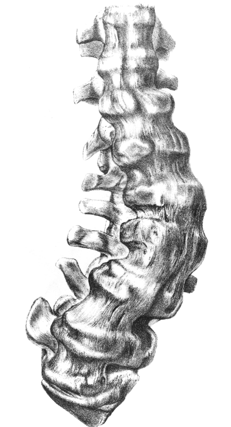 The spinal injury of Gideon Mantell. His spine was preserved in the museum of the Royal College of Surgeons after his death in 1852.